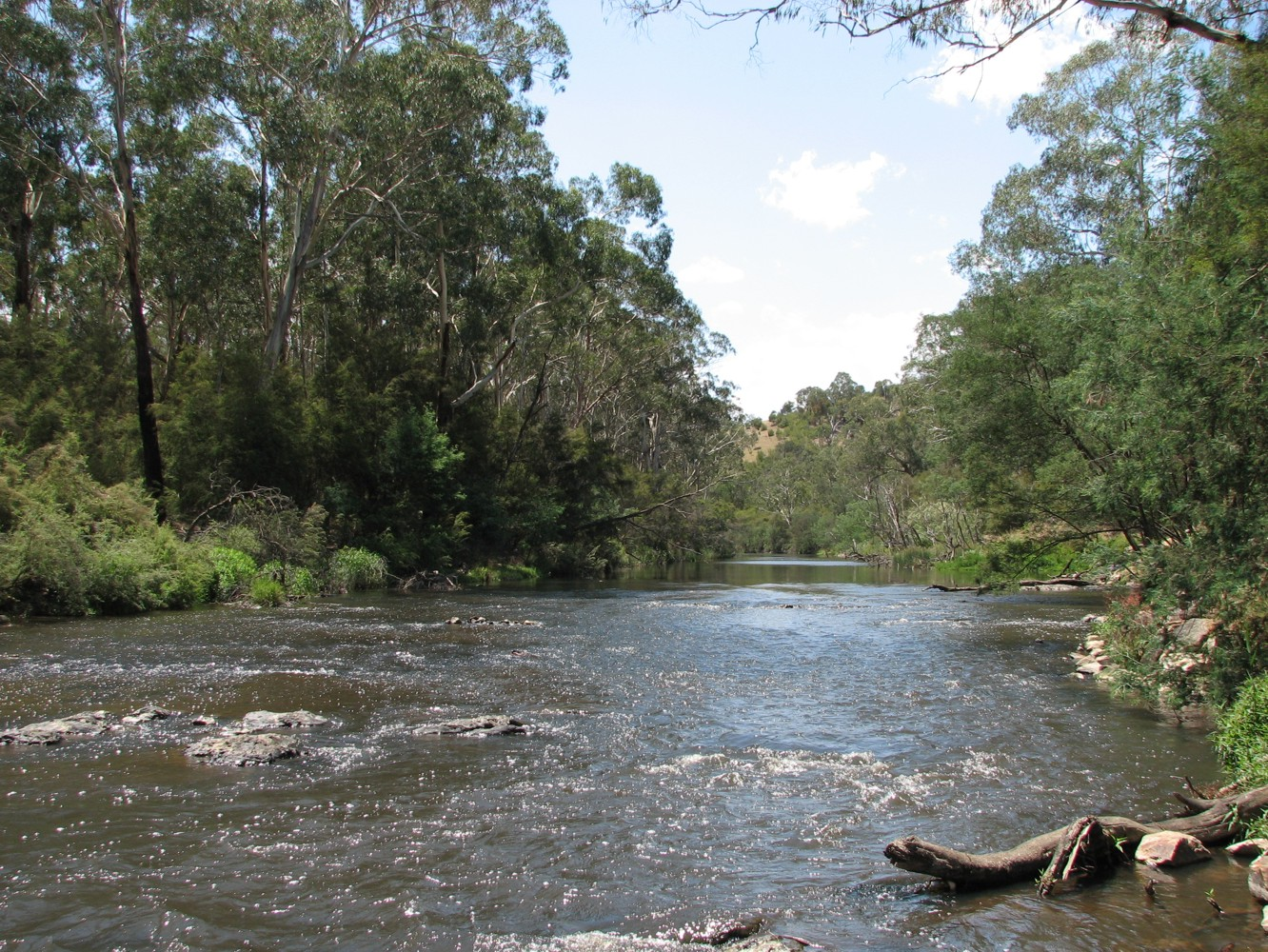 Yarra River, Wittons Reserve, Wonga Park, Victoria, Australia